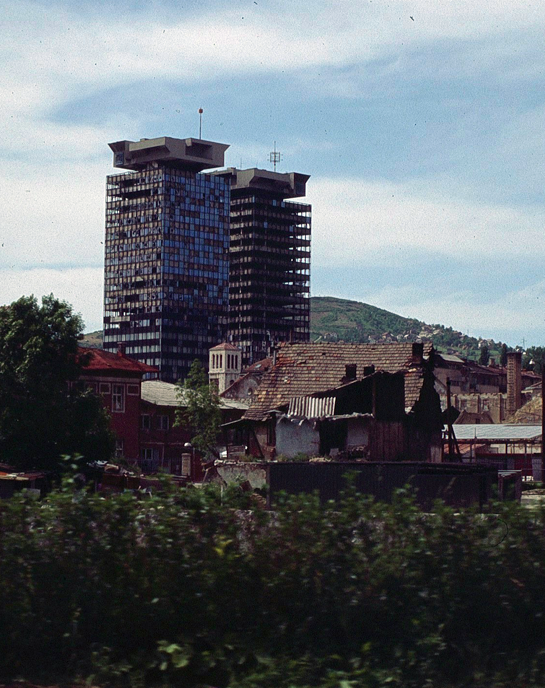 Burnt out UNIS towers in May 1996